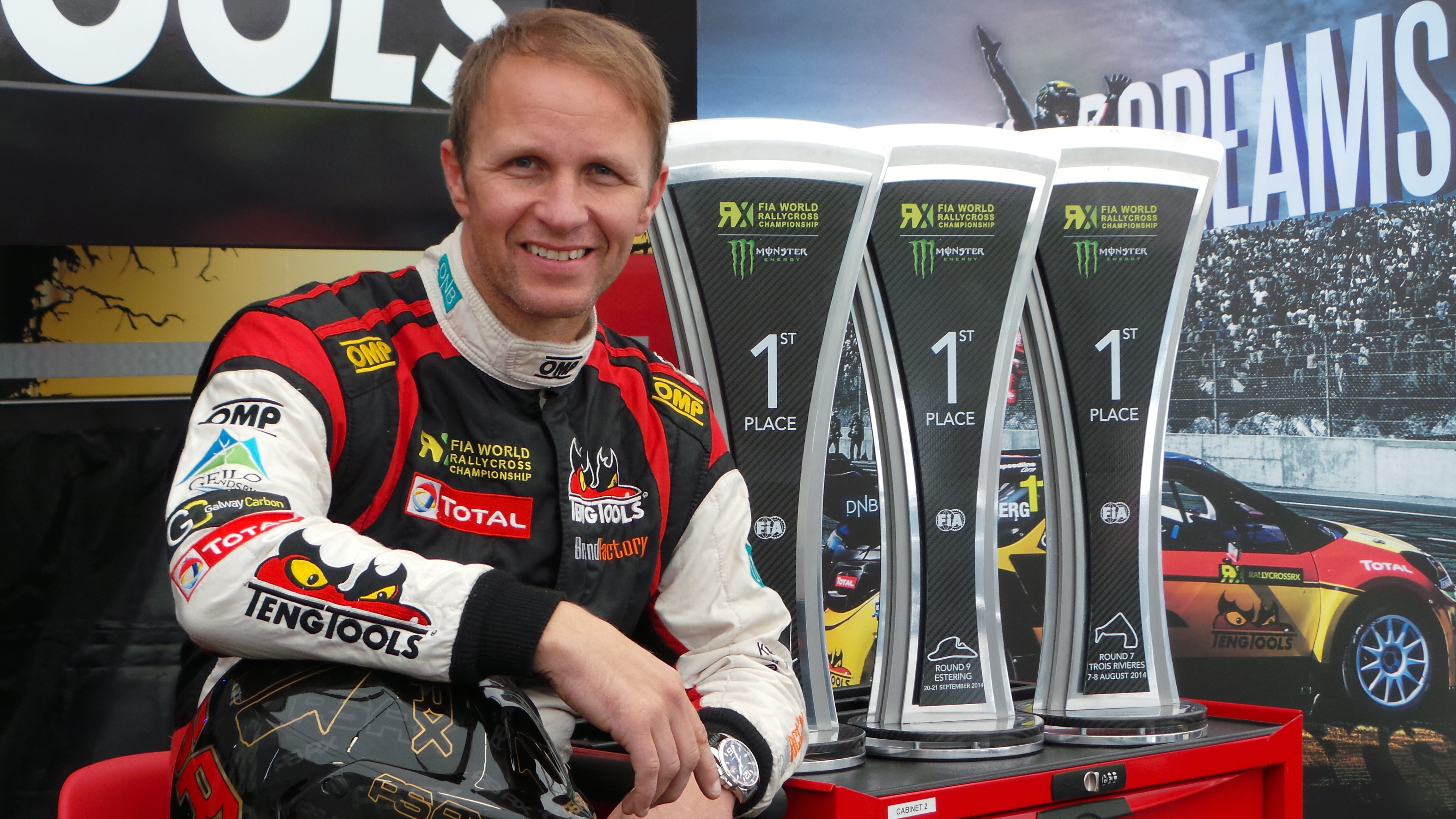 FIA World Rally (2003) and Rallycross (2014) Champion Petter Solberg. Round 9 of the 2014 FIA World Rallycross Championship at Estering, Germany.